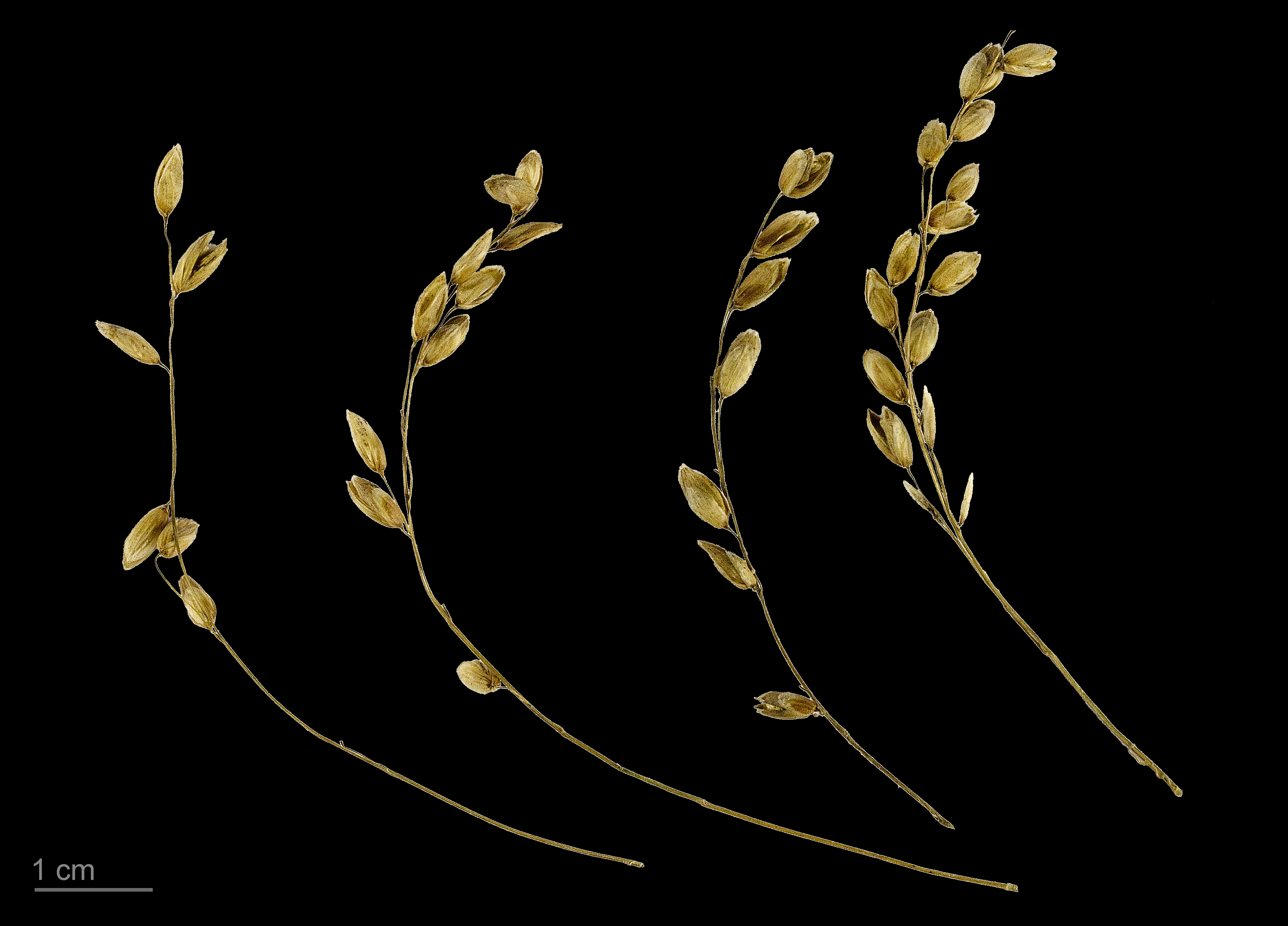 Melica nutans , fruits and seeds